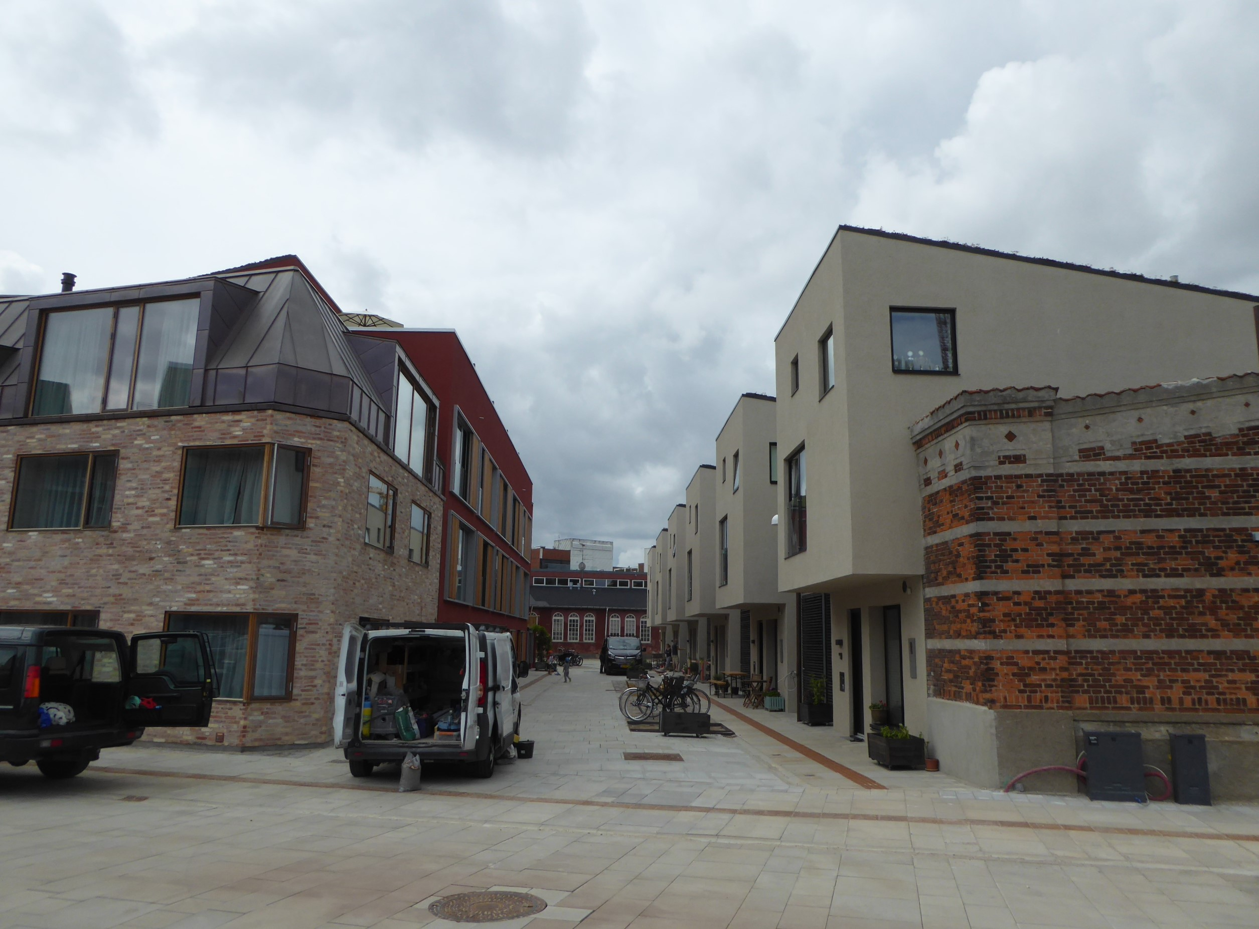 The street Kielgade at Sassnitzgade in Nordhavn in Copenhagen. The buildings around the street is named Frikvarteret.